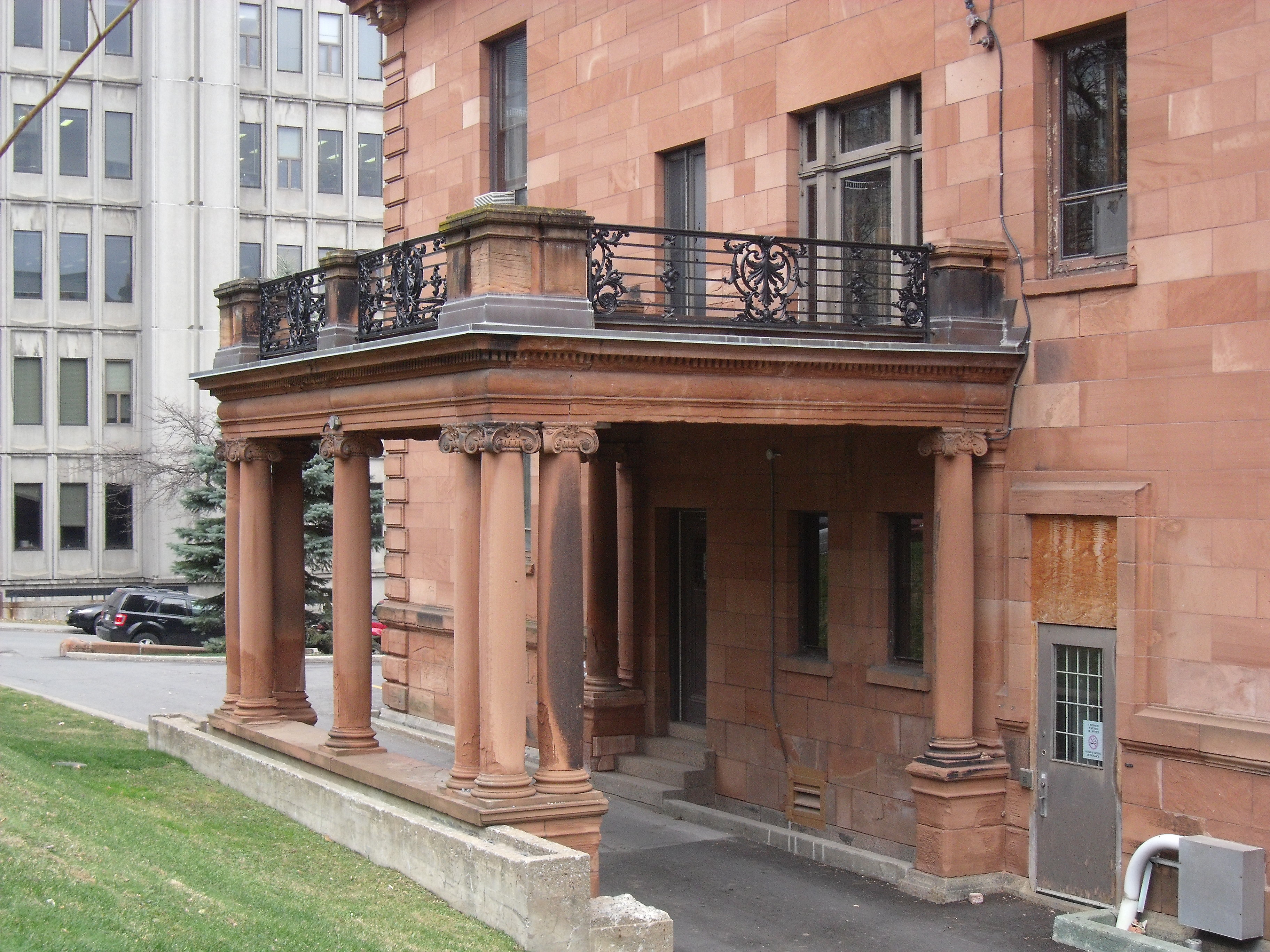 The Charles Rudolph Hosmer House (1901), 3630 Sir-William-Osler Promenade (Drummond Street), Montreal, Quebec, Canada houses the Department of Physical and Occupational Therapy of McGill University.